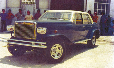 Neorion Chicago taken in Syros.